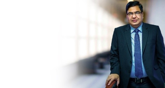 Atul Sobti